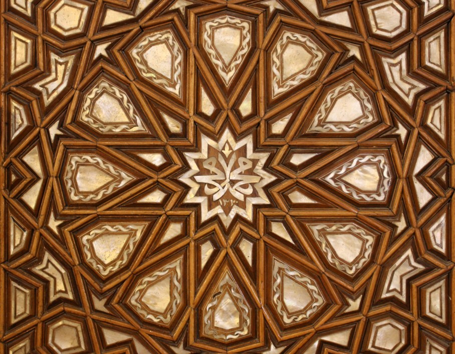 The interior of the mosque is mainly plain white although it contains some fragmentary mosaics and other geometric patterns. Damascus is believed to be the oldest continuously inhabited city in the world and the Umayyad Mosque stands on a site that has been considered sacred ground for at least 3,000 years. The Umayyad Mosque, also known as the Grand Mosque of Damascus, is one of the largest and oldest mosques in the world, being completed in 715 AD. The spot where the mosque now stands was a temple of Hadad in the Aramean era. The site was later a temple of Jupiter in the Roman era, then a Christian church dedicated to John the Baptist in the Byzantine era, before finally becoming a mosque.